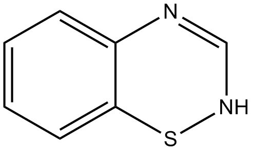 Structure of Benzothiadiazine, drawn with ChemDraw